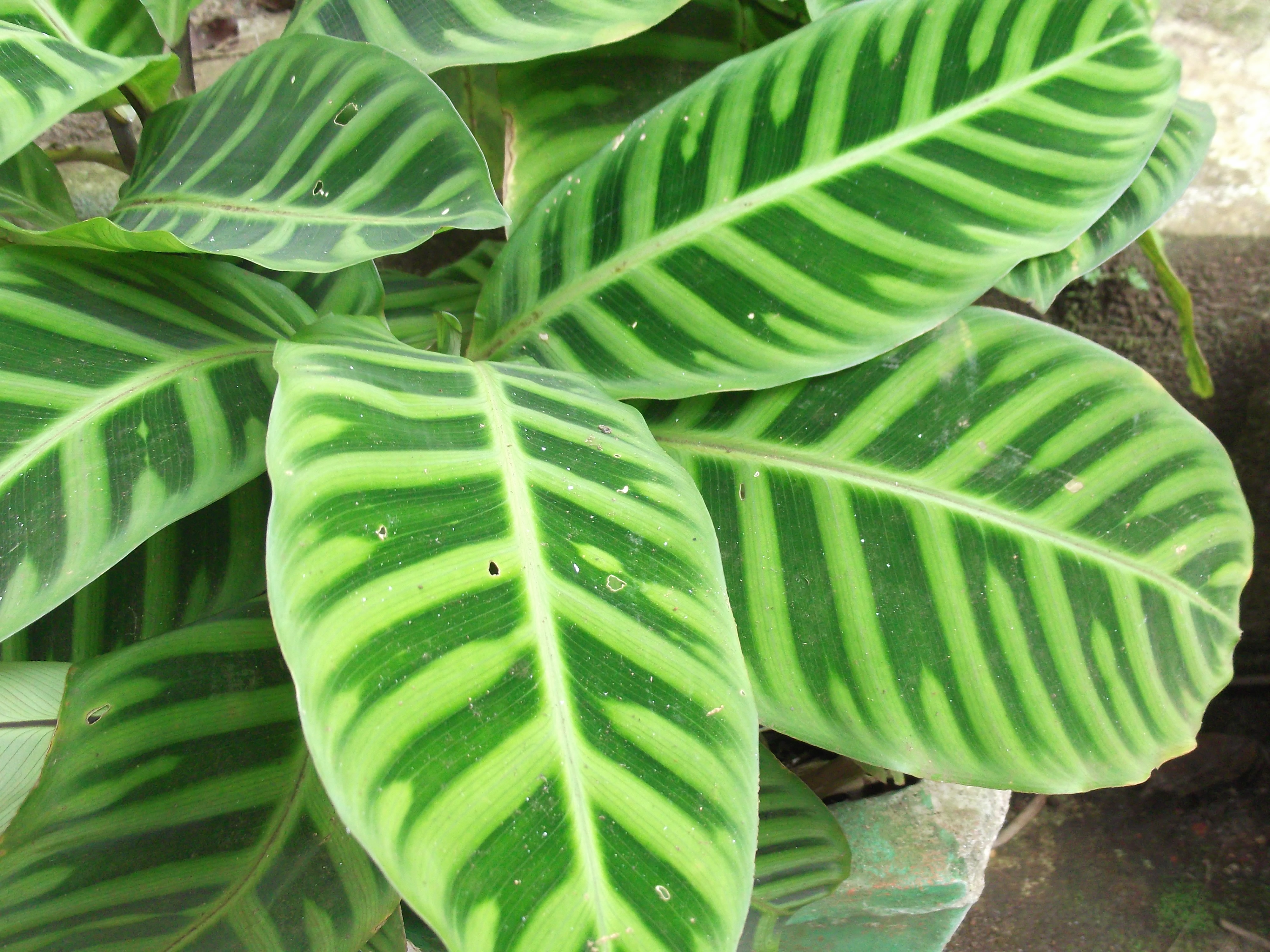 Zebra plant,leaves thin,deep velvety green,the midrib and latteral veins pale or yellow,purplish beneath.